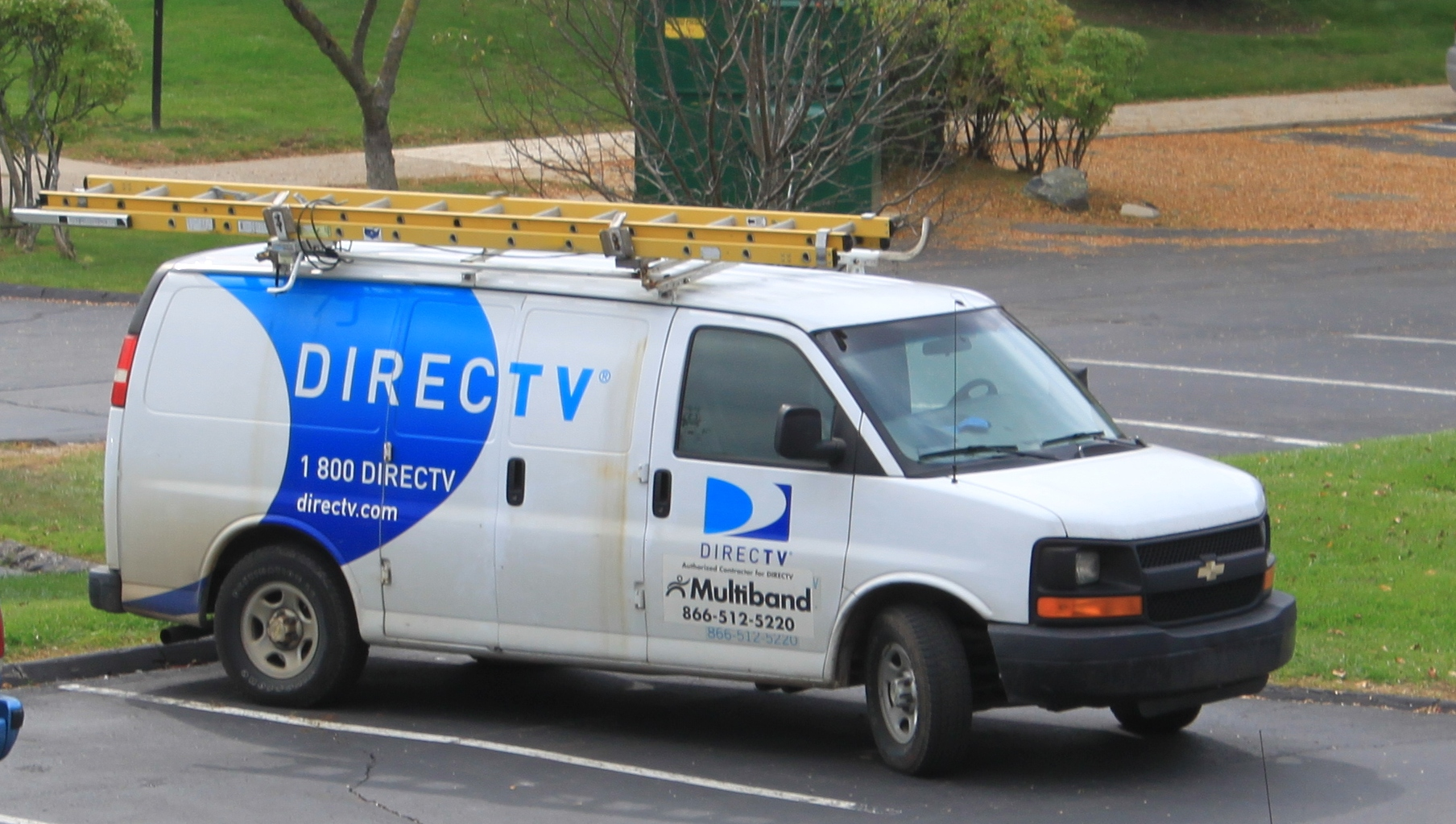 DirecTV service van, Fairway Trails Apartments complex, 220 South Hewitt, Ypsilanti Township, Michigan